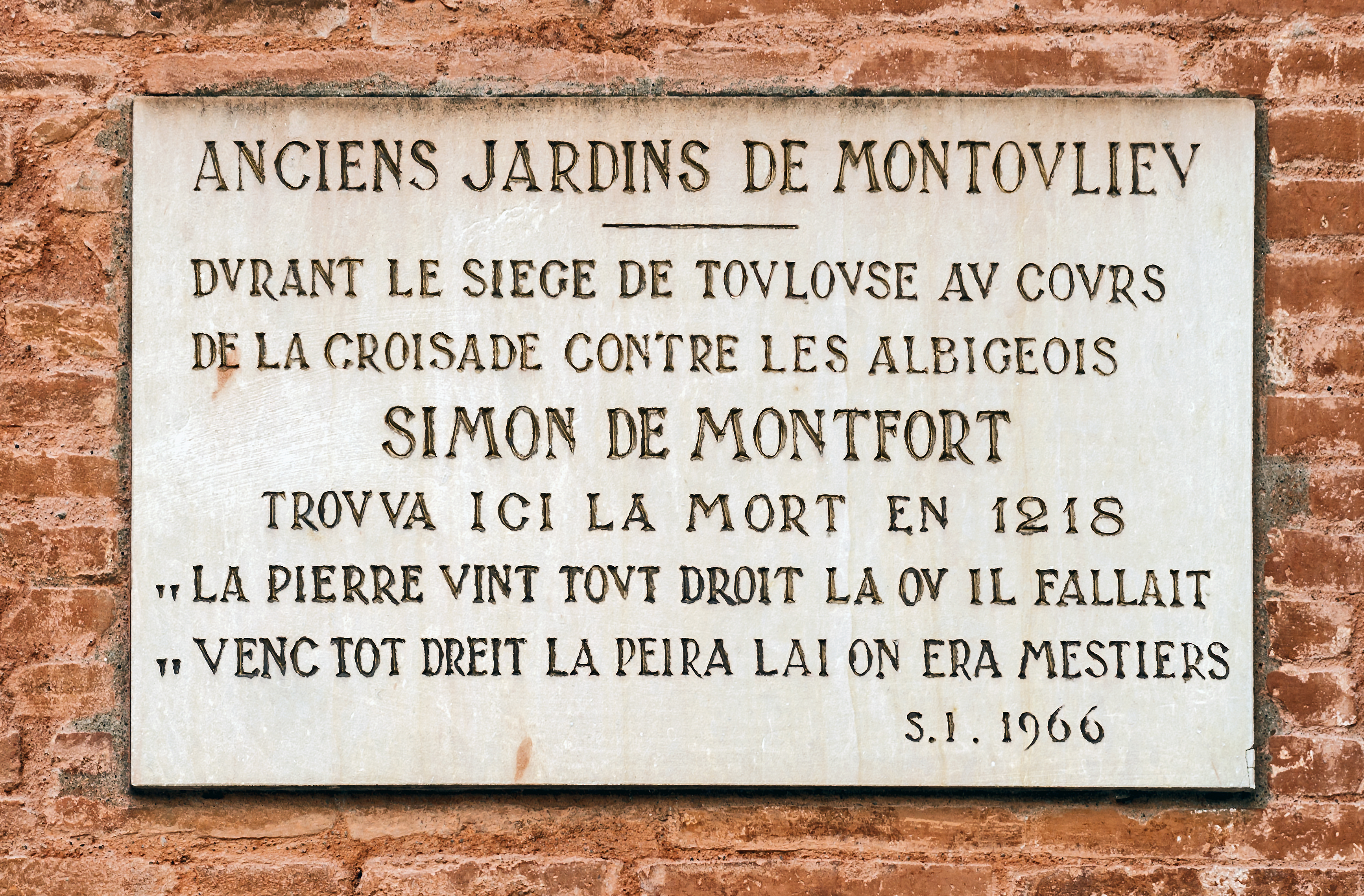 Virebent entrance to the Jardin des Plantes of Toulouse - Plaque commemorating the death of Simon de Montfort, 5th Earl of Leicester in 1218.